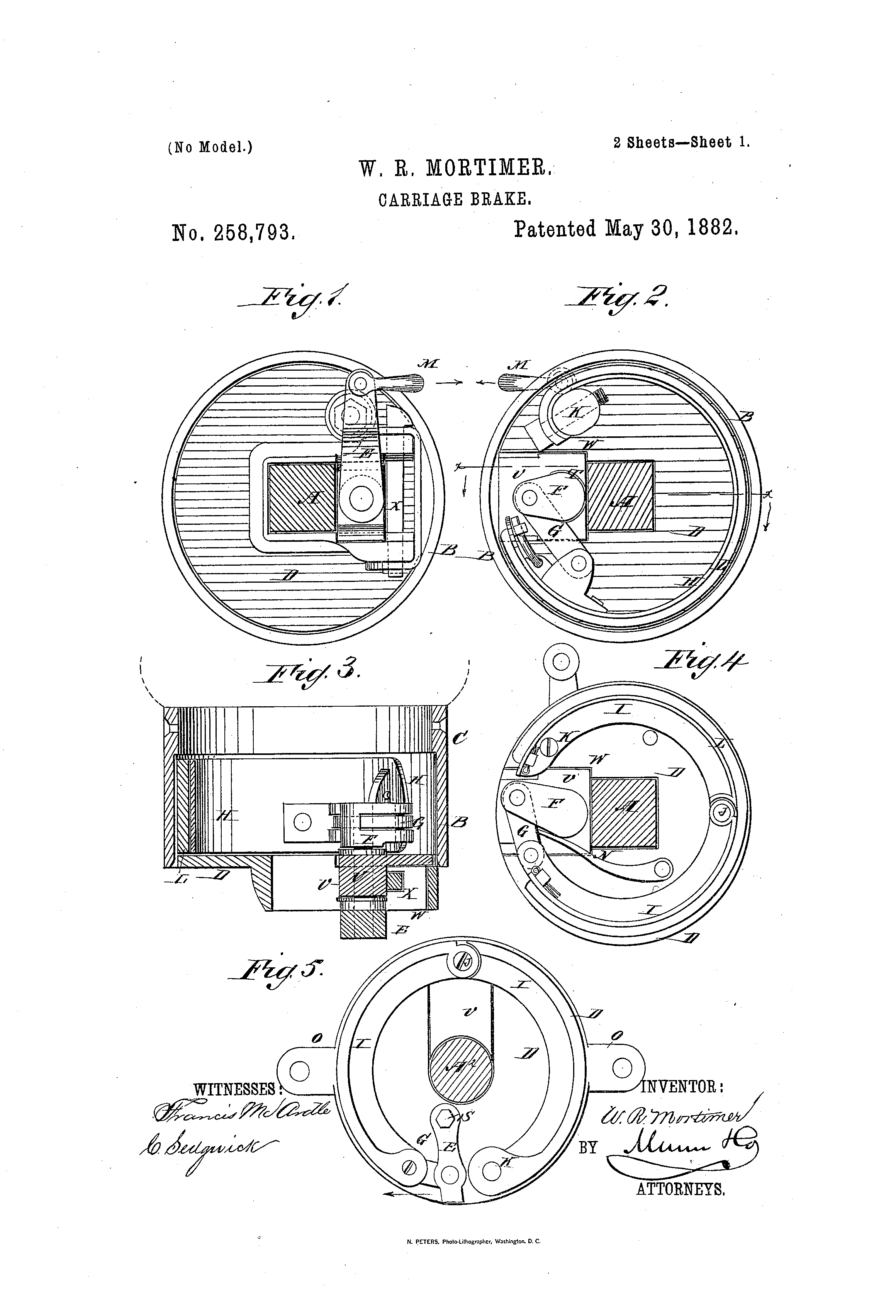 Internal expanding drum brake invented by Walter Russell Mortimer and patented in Britain in 1881 (No. 3279). Drawings taken from the US patent (No. 258793, dated 30 May 1882).